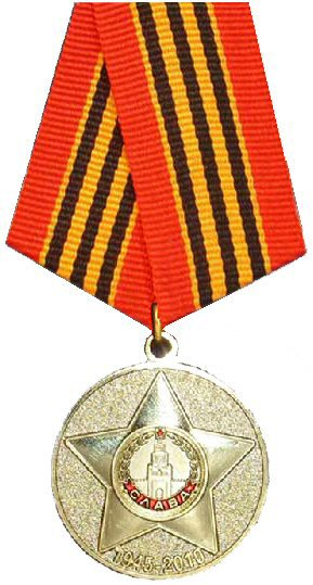 Russian Federation, State Jubilee Medal for the 65th Anniversary of Victory in the Great Patriotic War 1941 - 1945. Instituted by presidential decree 238 of 4 March 2009. Awarded to soldiers and civilian employees of the Armed Forces of the USSR for participation in hostilities in the Great Patriotic War 1941 - 1945, guerrillas and members of underground organizations operating in occupied territories of the USSR, persons who were awarded the medal "For Victory over Germany" or "For Victory over Japan”, persons awarded for their selfless work the medal "For Valiant Labor in the Great Patriotic War” or "For Labor Merit" or any of the "Defense" medals of the cities or regions of the USSR; to persons who worked in the period from 22 June 1941 to May 9, 1945 for no less than six months, excluding the period of work in the temporarily occupied territories; former underage prisoners of concentration camps, ghettos and other places of detention established by the Nazis and their allies; foreign nationals from outside the Commonwealth of Independent States, who fought in the national military forces in the USSR, as part of guerrilla units, underground groups, and other anti-fascist groups who have made significant contribution to victory in World War II and who were awarded state awards of the USSR or Russia.